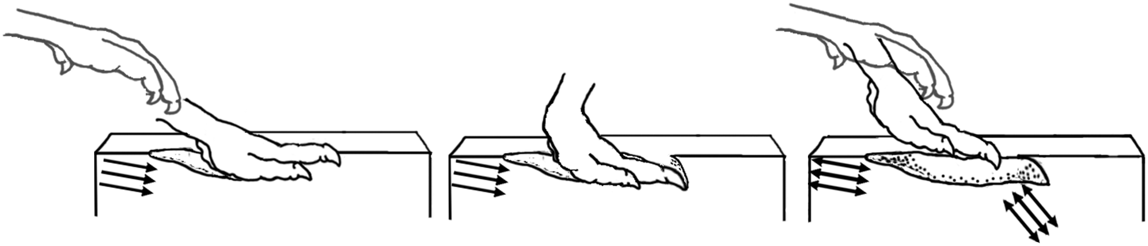 Hypothesized pes movement of the track-maker for Bellatoripes fredlundi. The digits were not dragged cranially through the substrate as previously described in theropods footprints. The pes and digits were retracted from the substrate along an opposite trajectory of their entry prior to the pes moving forward in the next step cycle. Arrows indicate trajectory of the foot of Trackway C, print #2 as deduced from entry striations at the point of pes entry (left frame) and exit (center frame) into the substrate.